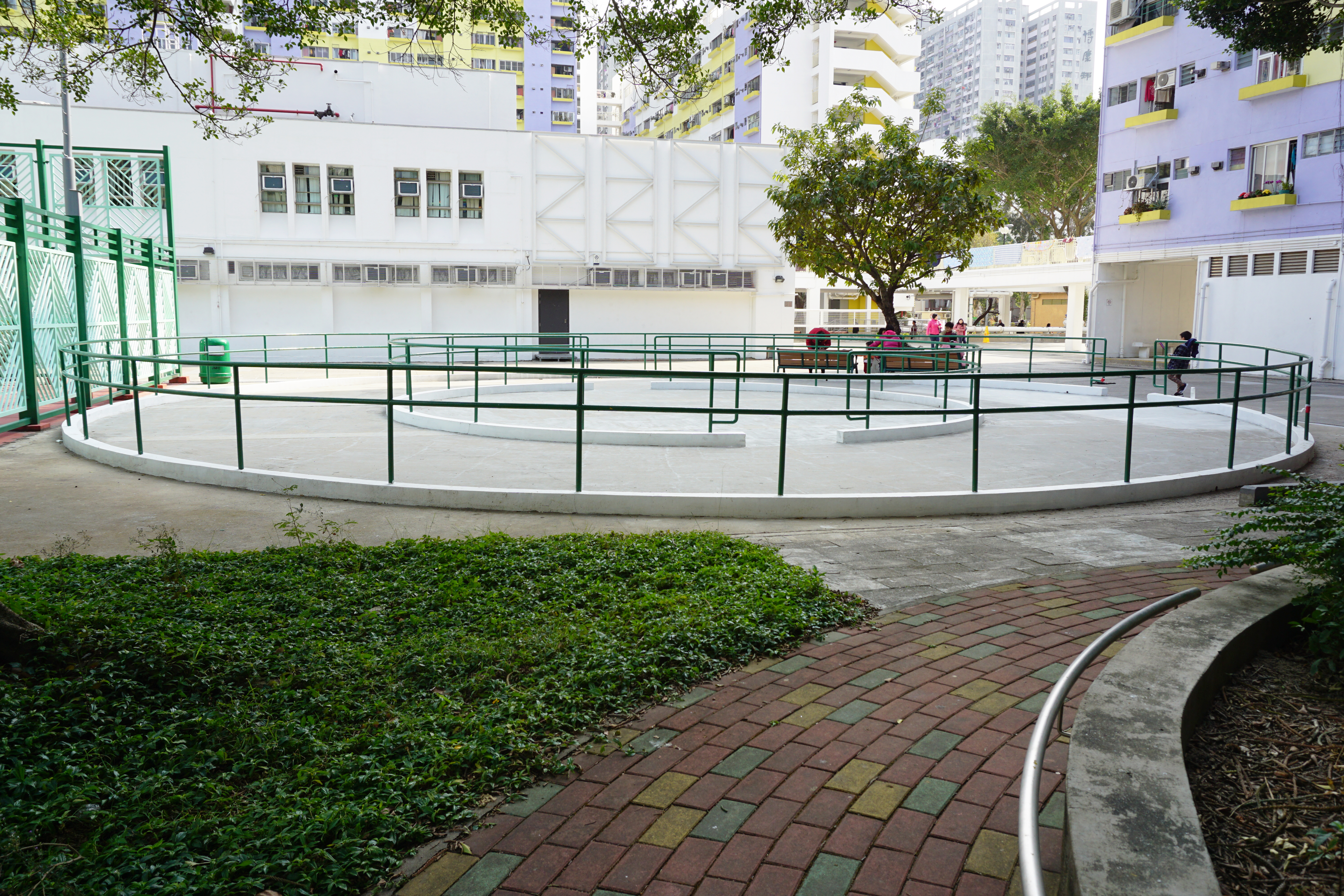 Jat Min Chuen in Sha Tin Wai, Hong Kong.